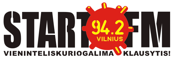 Official logo of Vilnius University Radio "Start FM" [VUR-SFM]